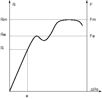 Traction curve